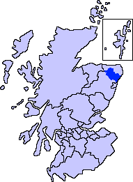 Aberdeenshire unitary council - Formartine Area